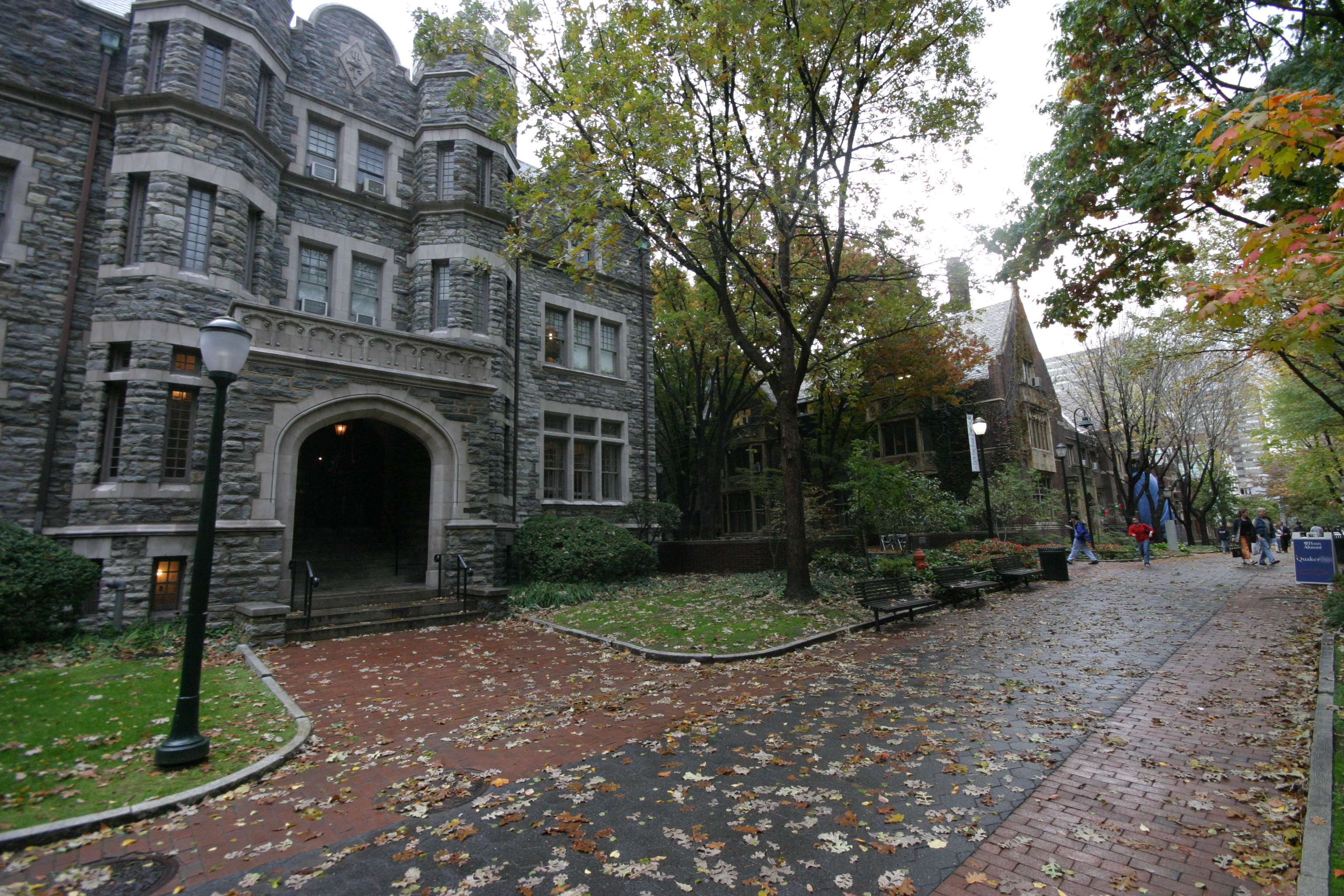 The Castle at the University of Pennsylvania